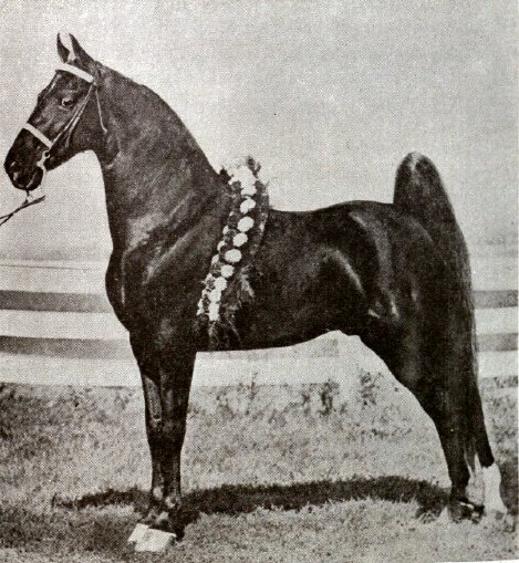 Tennessee Walking Horse foundation stallion Merry Go Boy in an undated photograph.